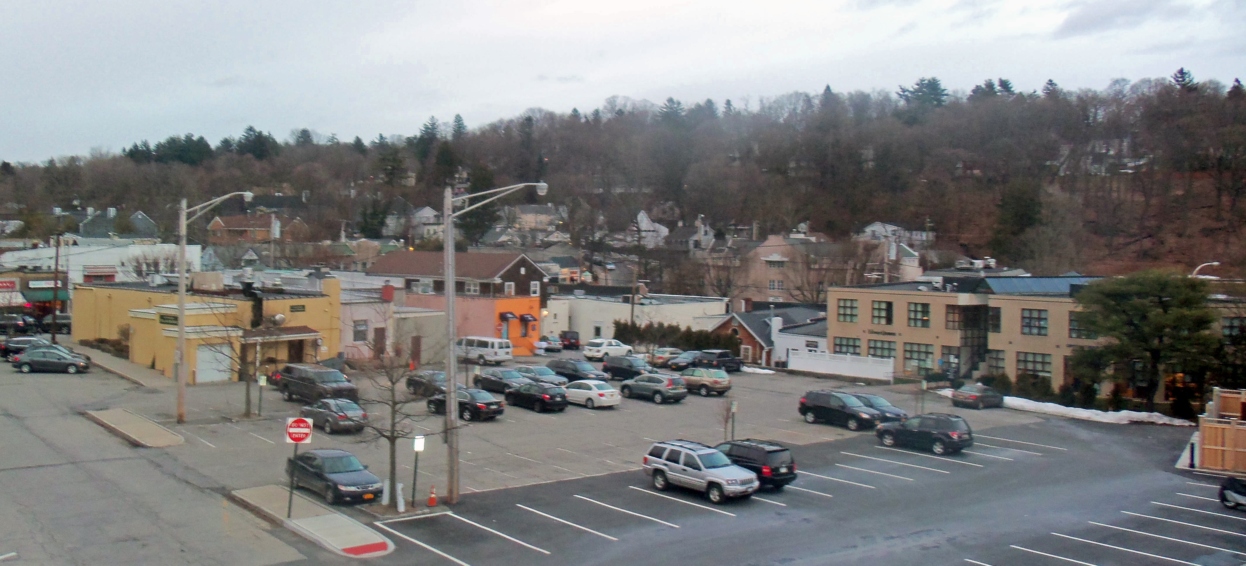 View of downtown Chappaqua, New York, USA, from nearby overpass carrying NY 120 over the Saw Mill River Parkway and Metro-North's Harlem Line